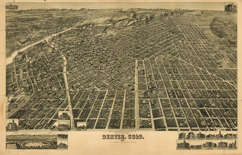 A perspective map of Denver, Colorado in 1889.